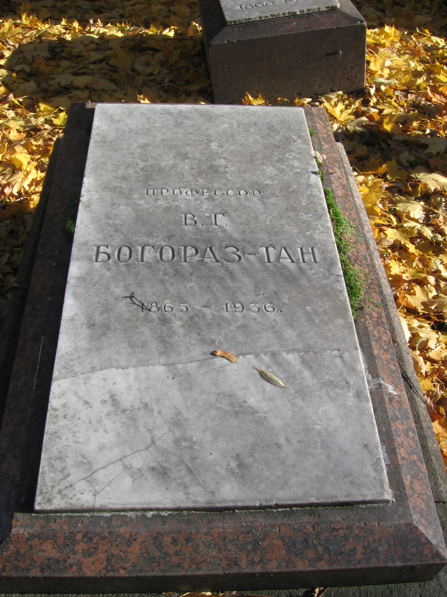 Grave of Vladimir Bogoraz (pseudonim Tan)